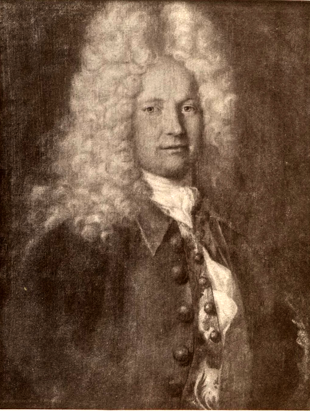 Josias Cederhielm (1673-1729) swedish diplomat